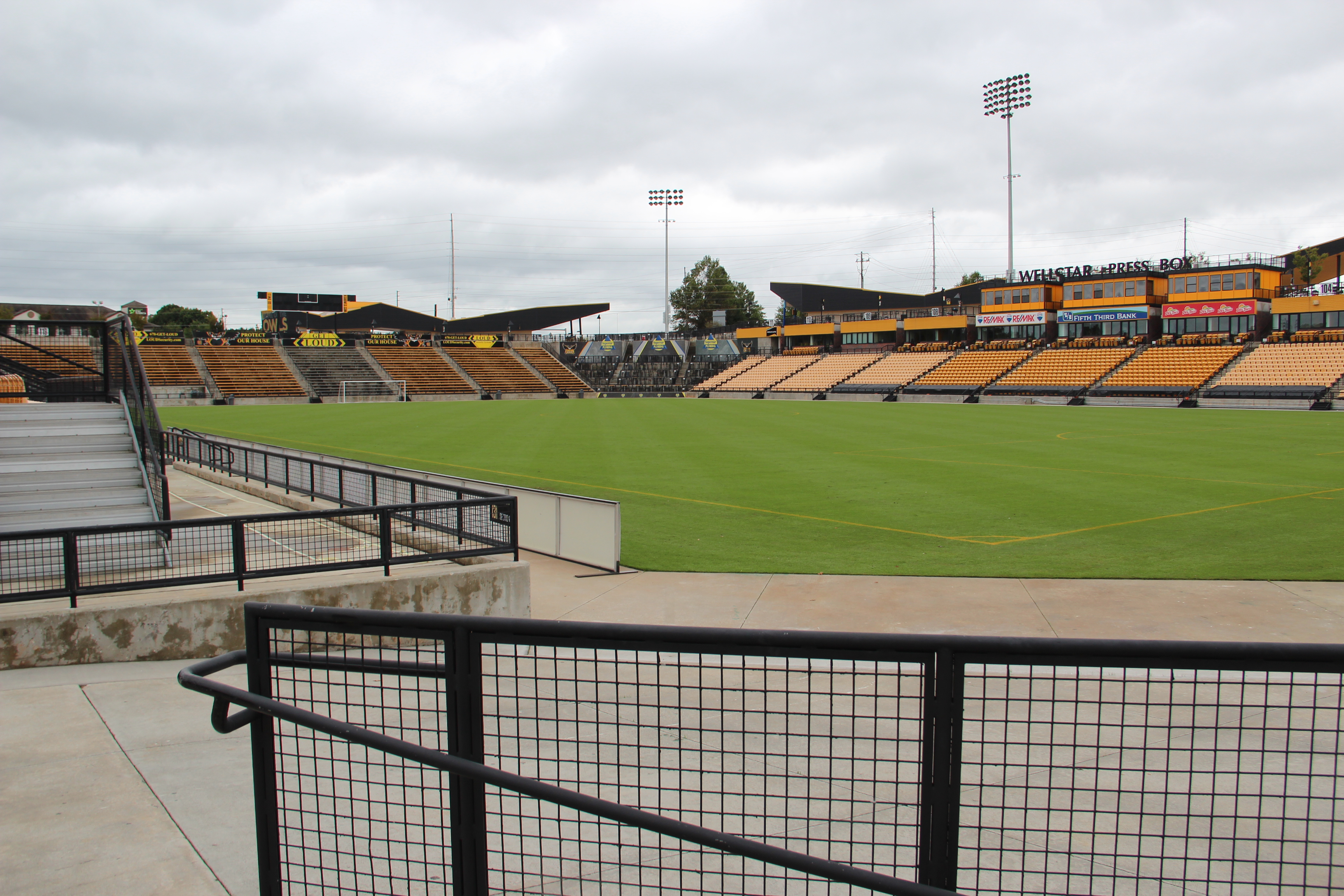 Fifth Third Bank Stadium, Kennesaw State University